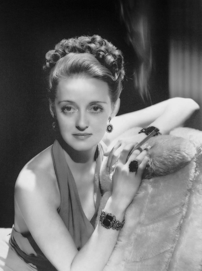 Portrait of Bette Davis by George Hurrell